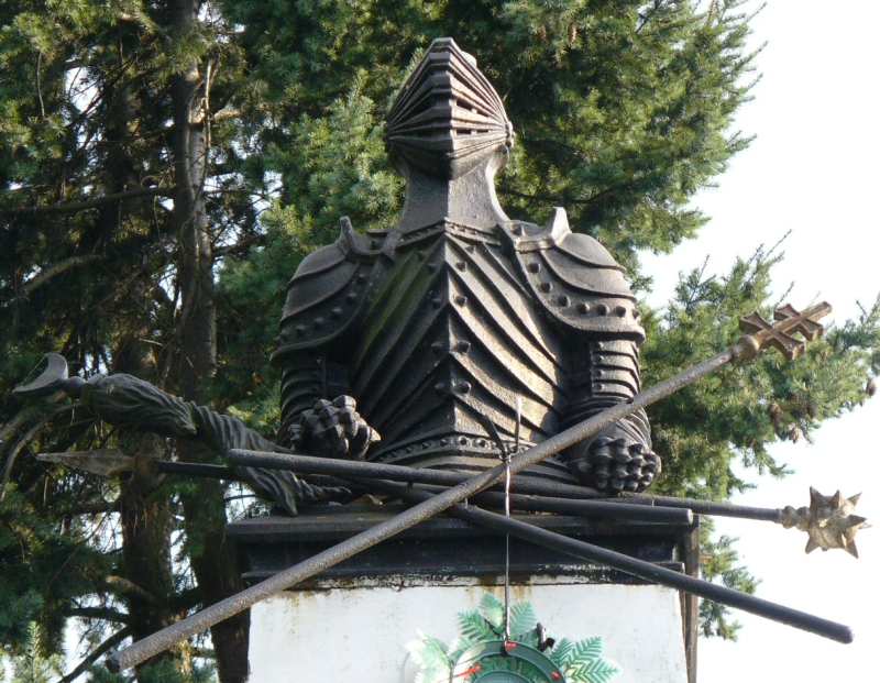 Pavel Chinezu Bust in Sibod Alba